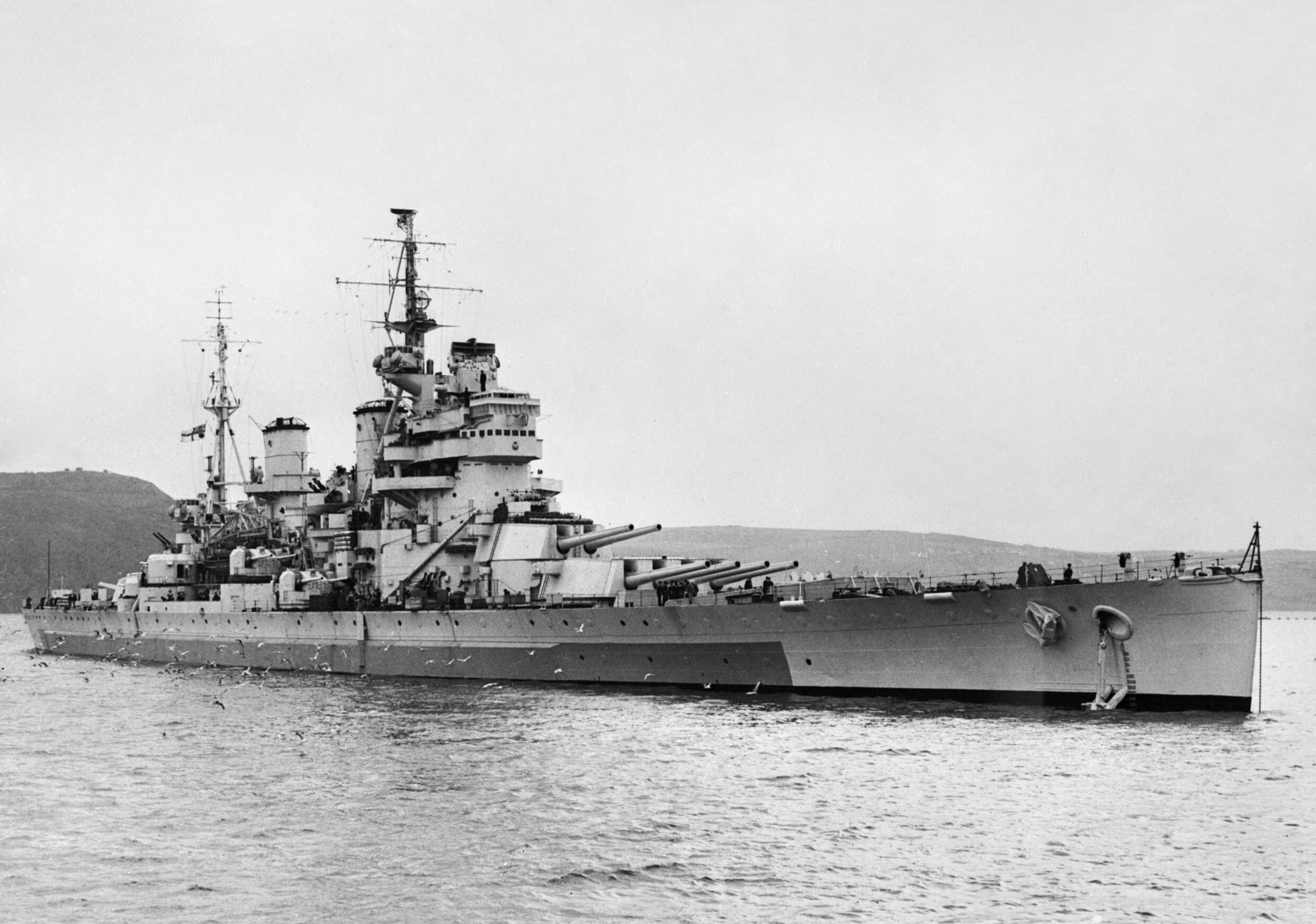 The Royal Navy battleship HMS Anson (79) underway at Devonport.